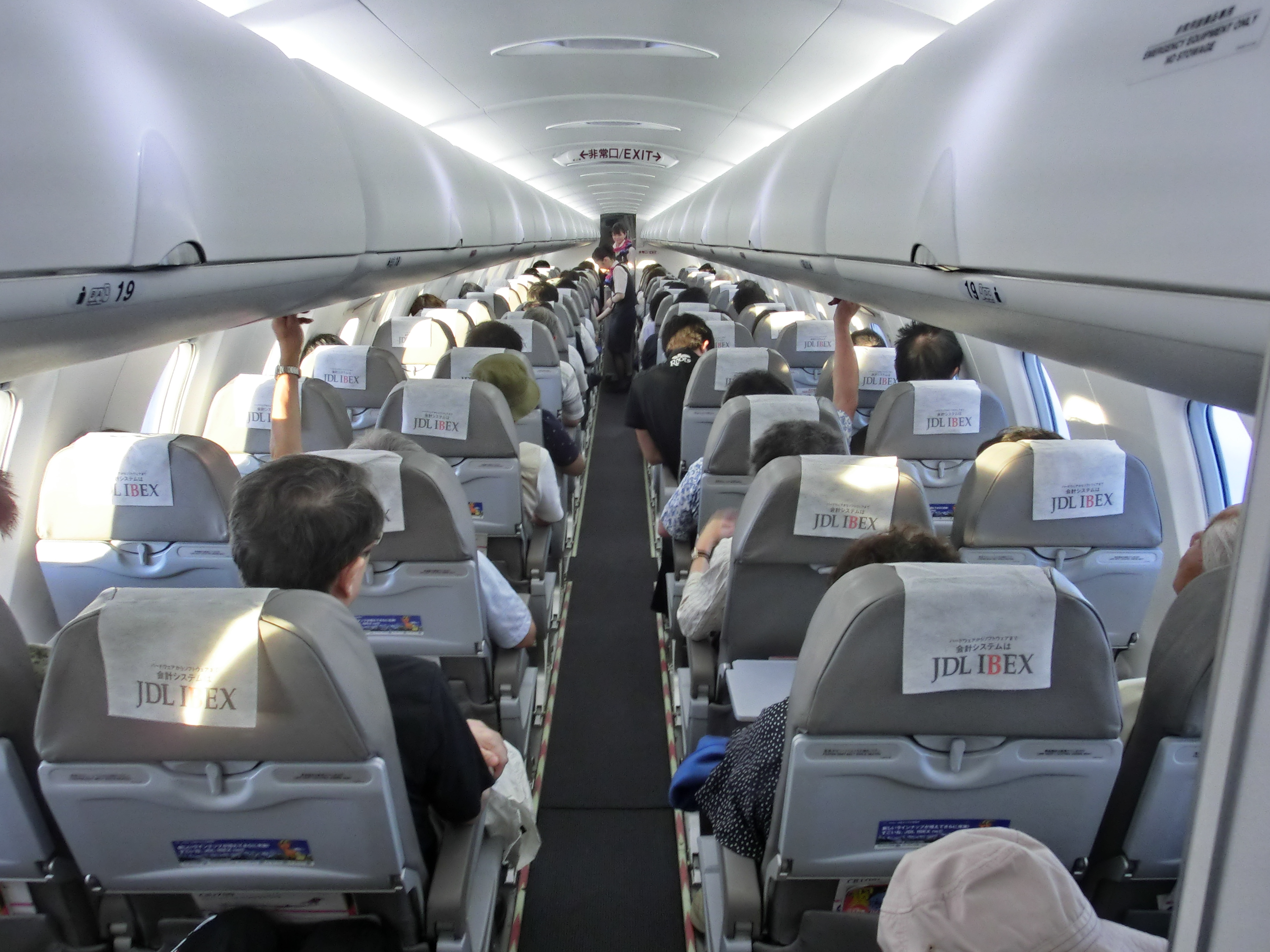 Interiors of Ibex Airlines CRJ700